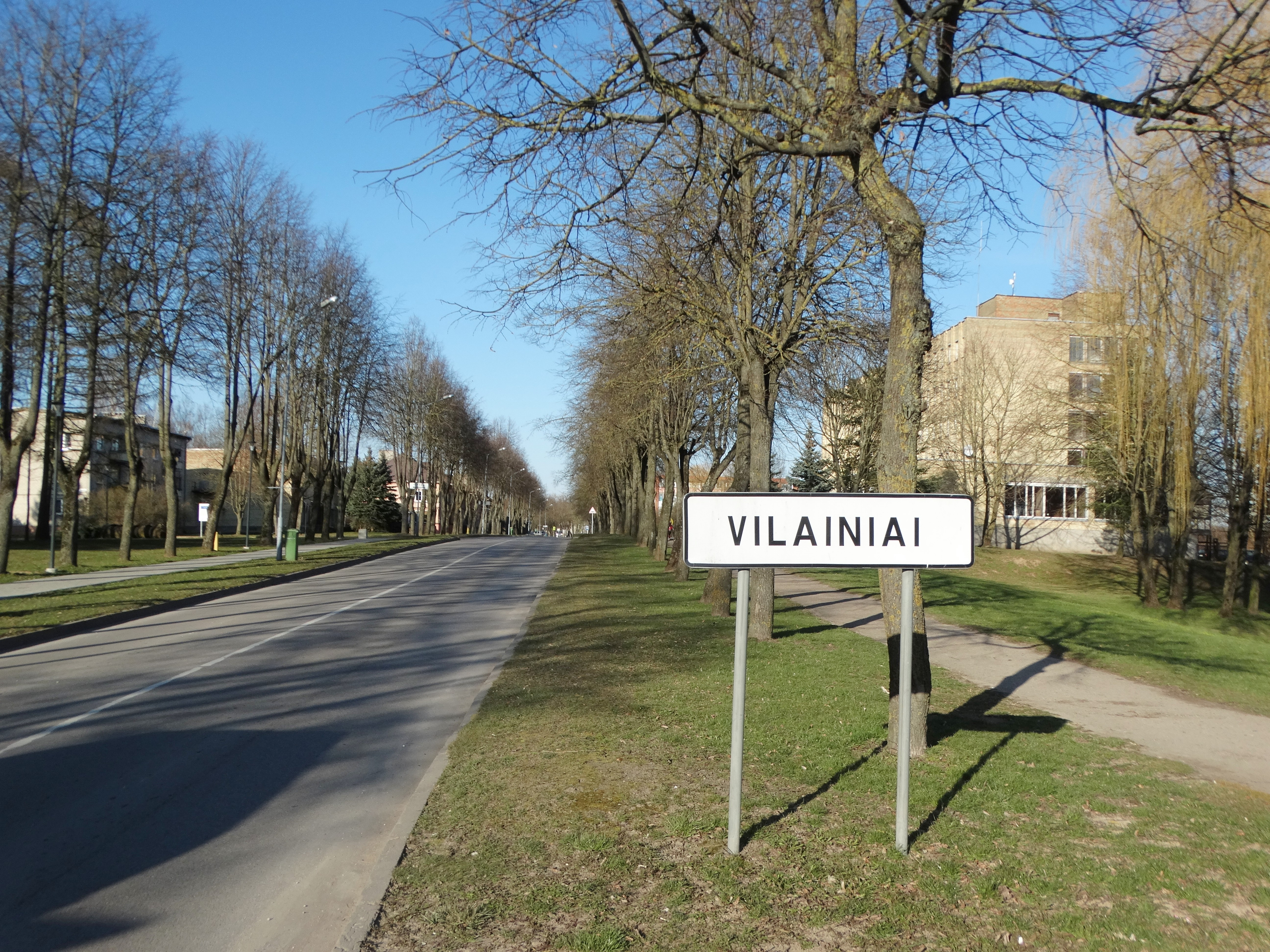 Vilainiai near Kėdainiai, Lithuania